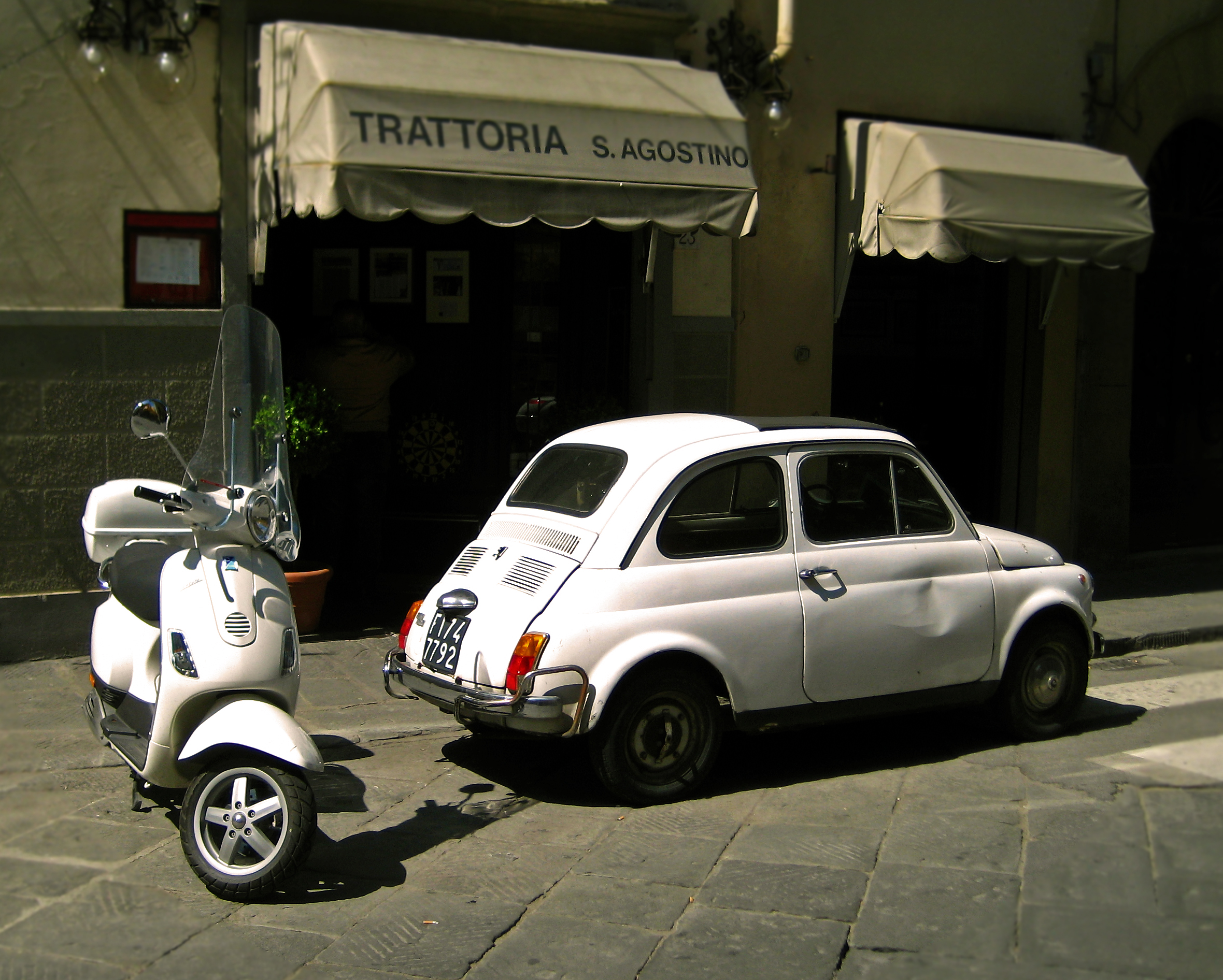 Vespa Piaggio and Fiat 500 in a Florentine street, Florence, Tuscany, Italy